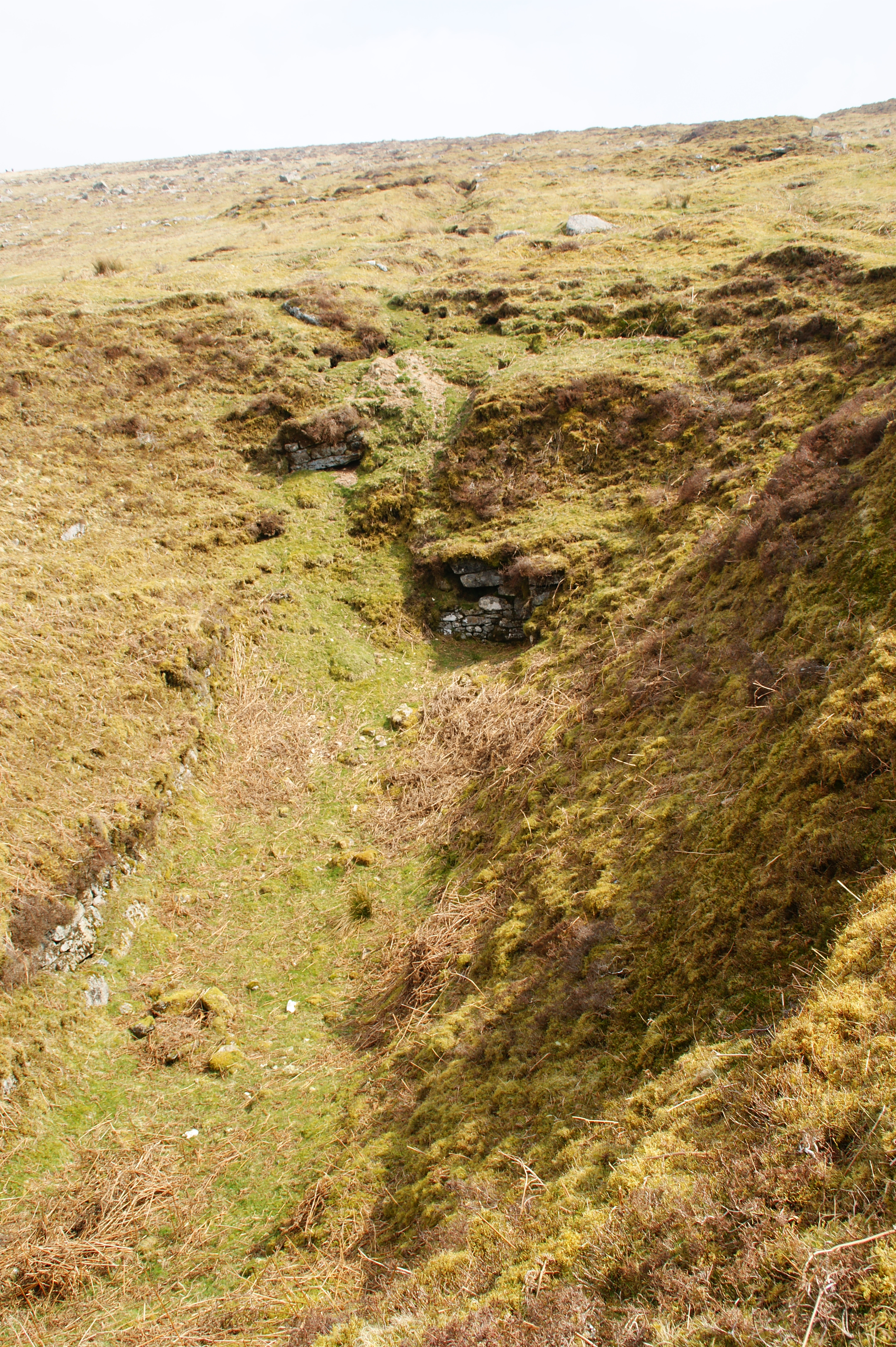 Second major wheelpit close to the Two Brothers adit at Eylesbarrow mine on Dartmoor in South Devon, UK.